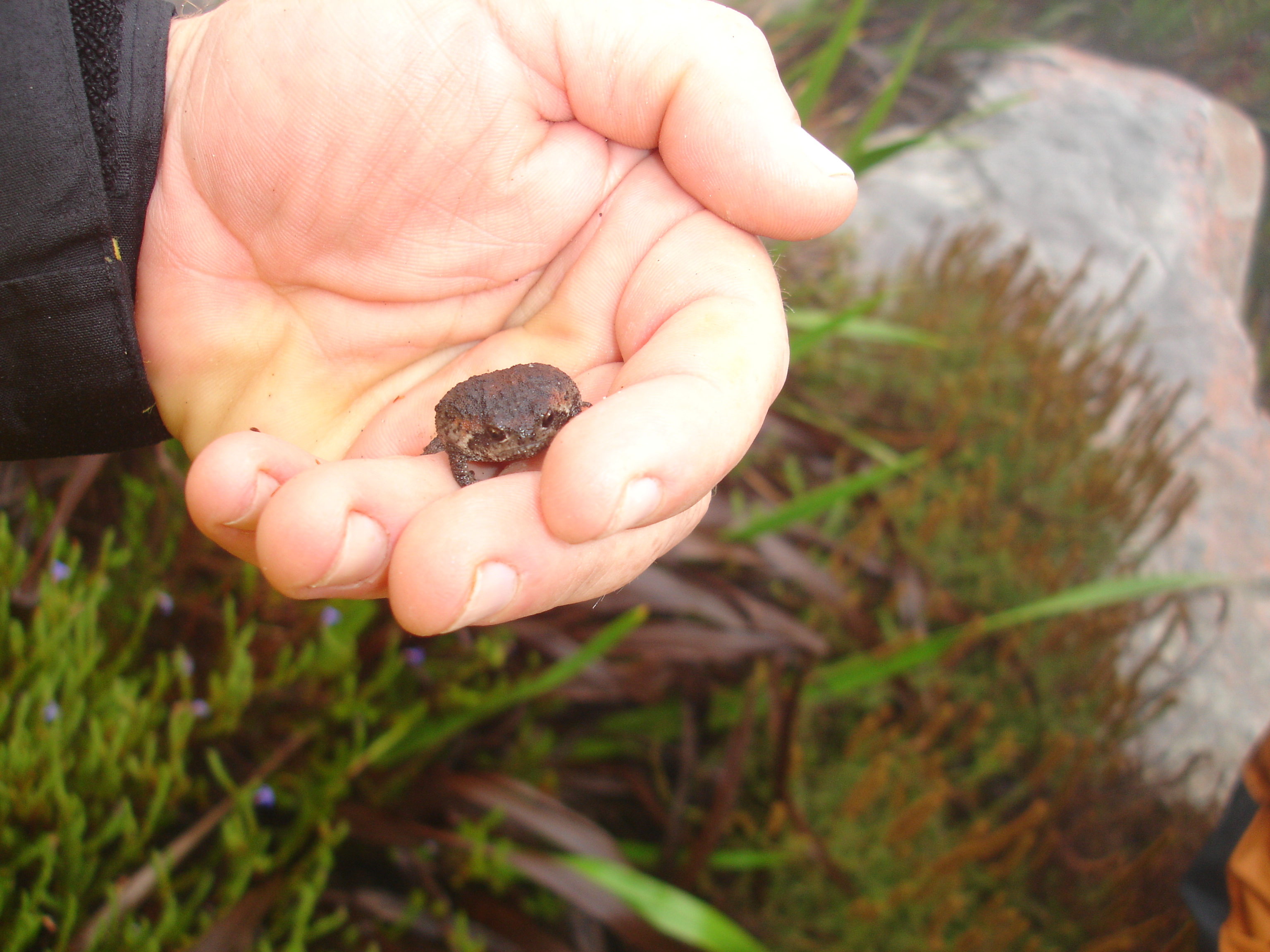 taken in late autumn, eastern slopes of table Mountain, 700m ASL.